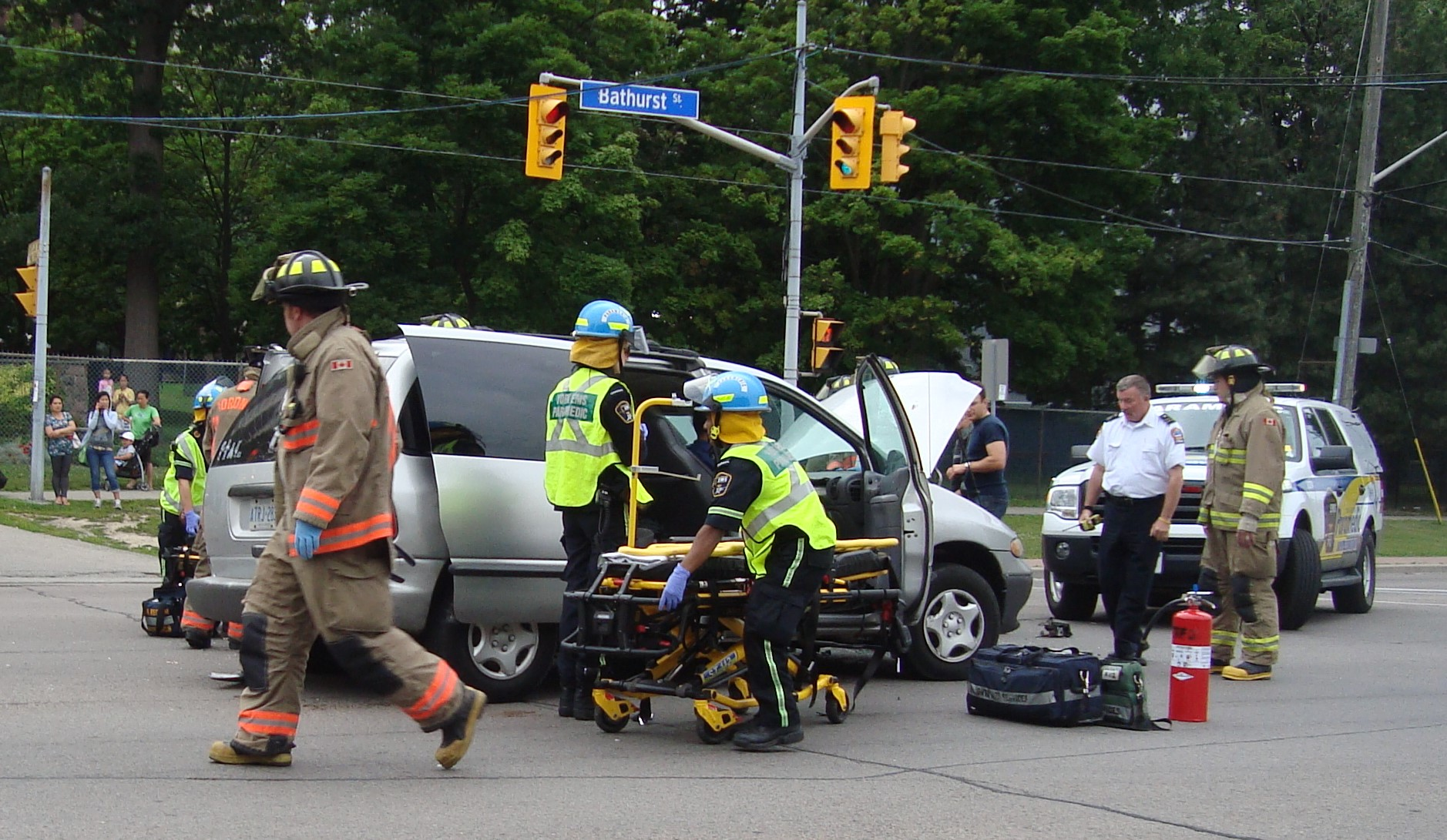 paramedics extract a patient in a car accident in Toronto, Ontario